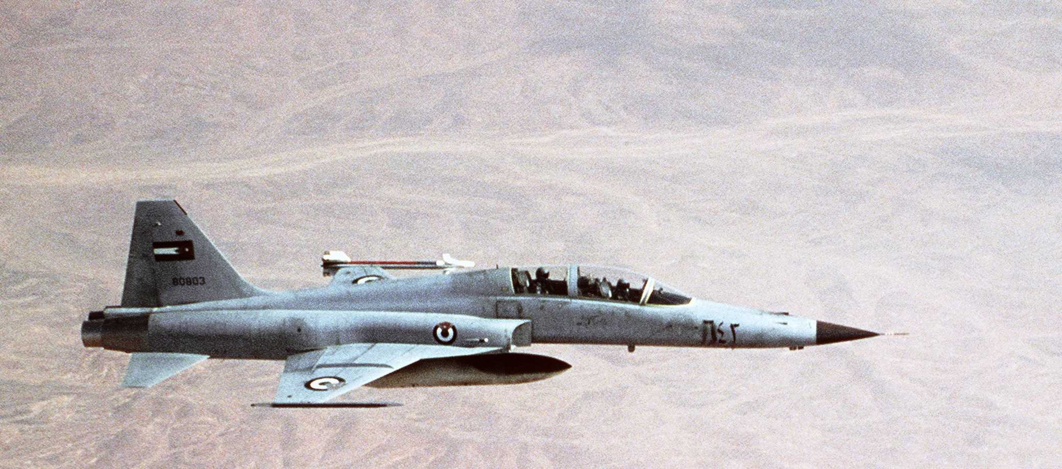 An air-to-air right side view of a Jordanian F-5 Tiger II aircraft during Exercise SHADOW HAWK'87, a phase of BRIGHT STAR'87.